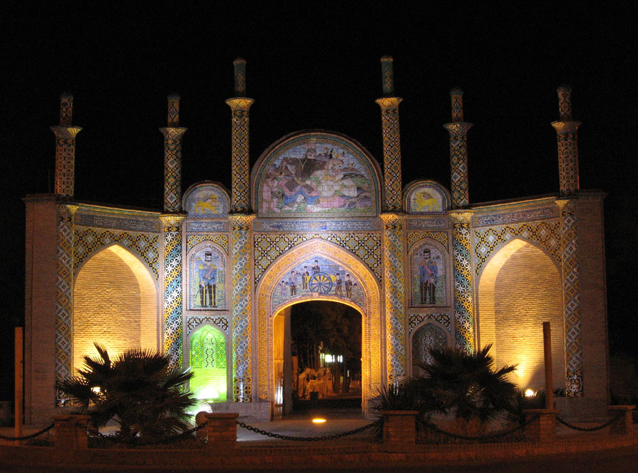 The Arg gate, built in Semnan during the Qajar era.